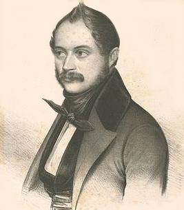 Taken from - PD due to age